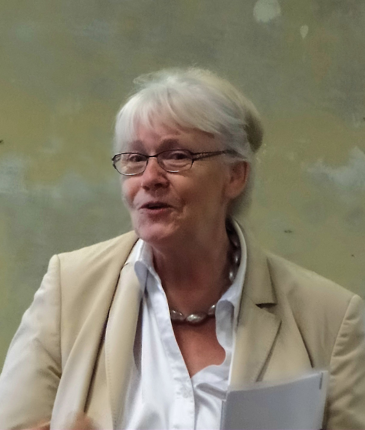 Rosemarie Wilcken in the House of culture in Mestlin, district Ludwigslust-Parchim, Mecklenburg-Vorpommern, Germany